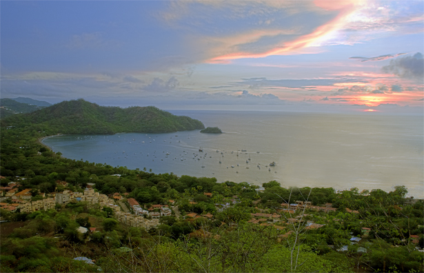 Photo of Bahia Coco, Playas del Coco. Courtesy of